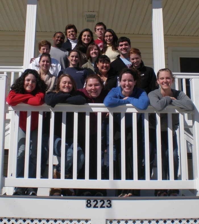 Response-Ability volunteers on Retreat, February 2009